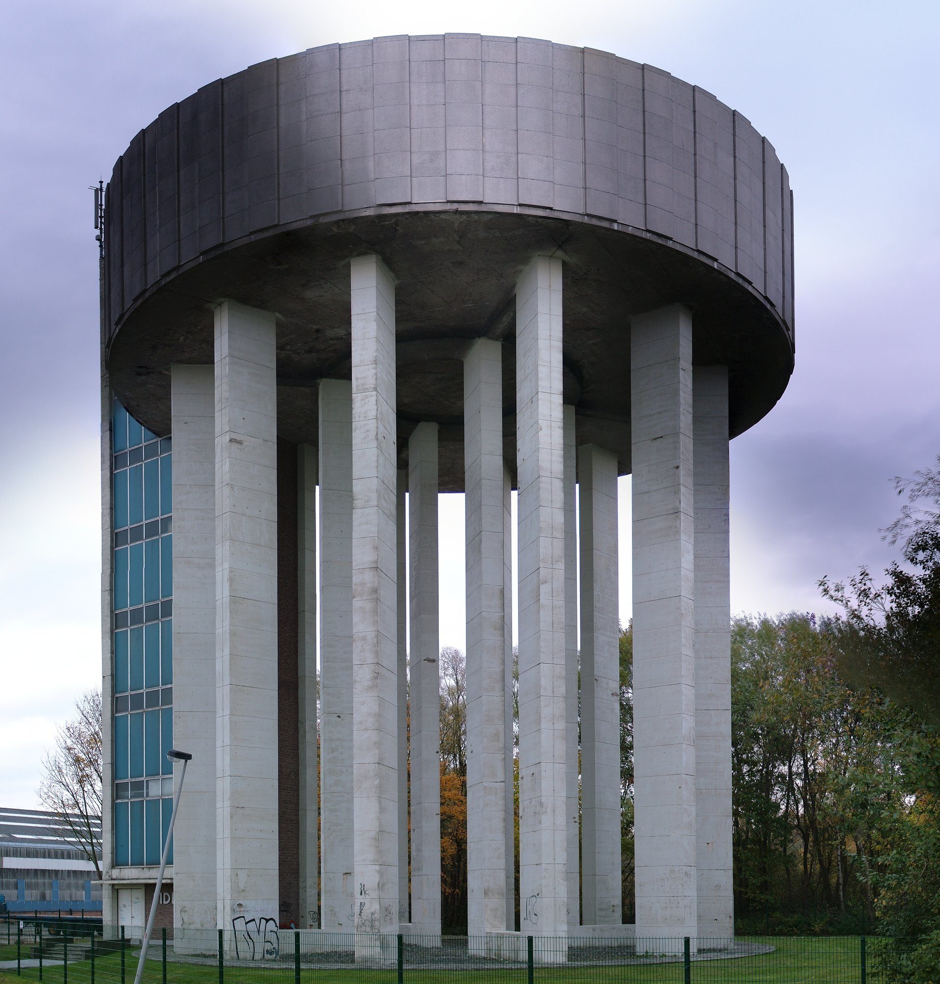 Pidpa water tower in Hemiksem